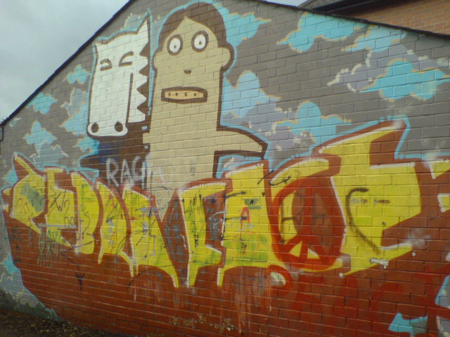 A photograph of the public graffiti of the Zebraface character created by Kid Acne.